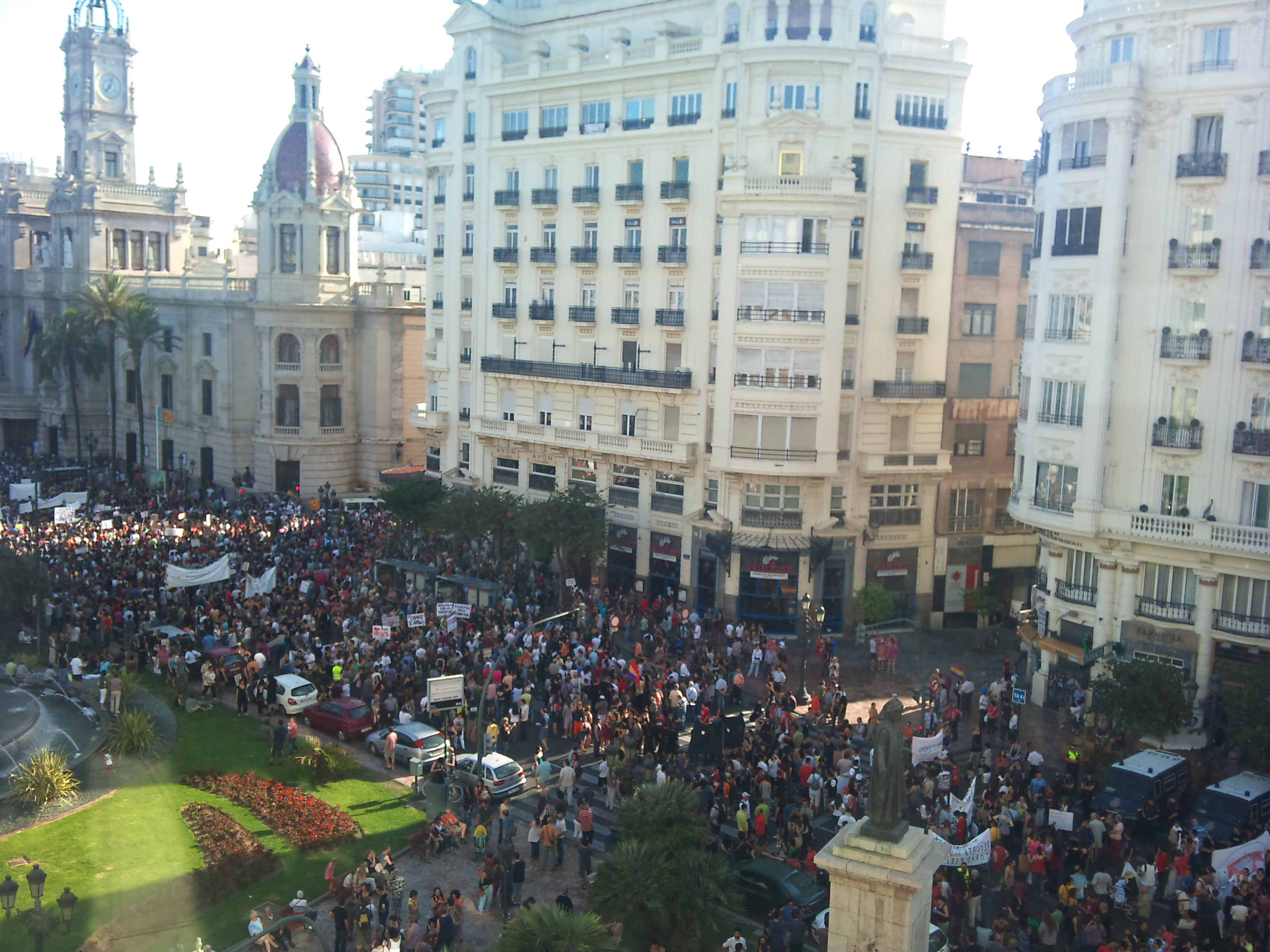 15-M movement demonstration in Valencia, 19th June 2011.